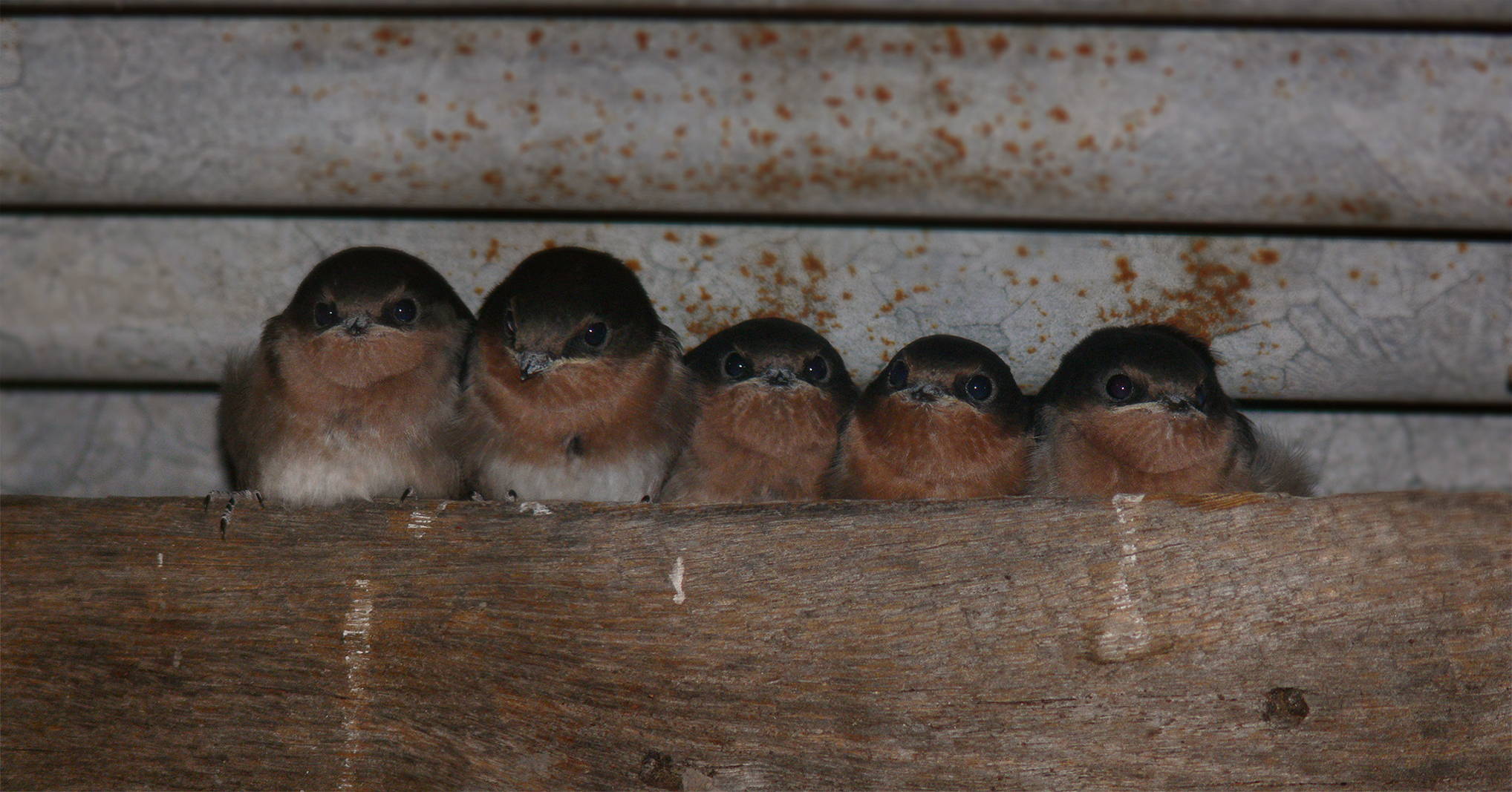 Welcome Swallows, Hirundo neoxena. Parents (left) and three chicks. This was taken the day the chicks left the nest which makes them about two to three weeks old. Taken in South-eastern Australia.